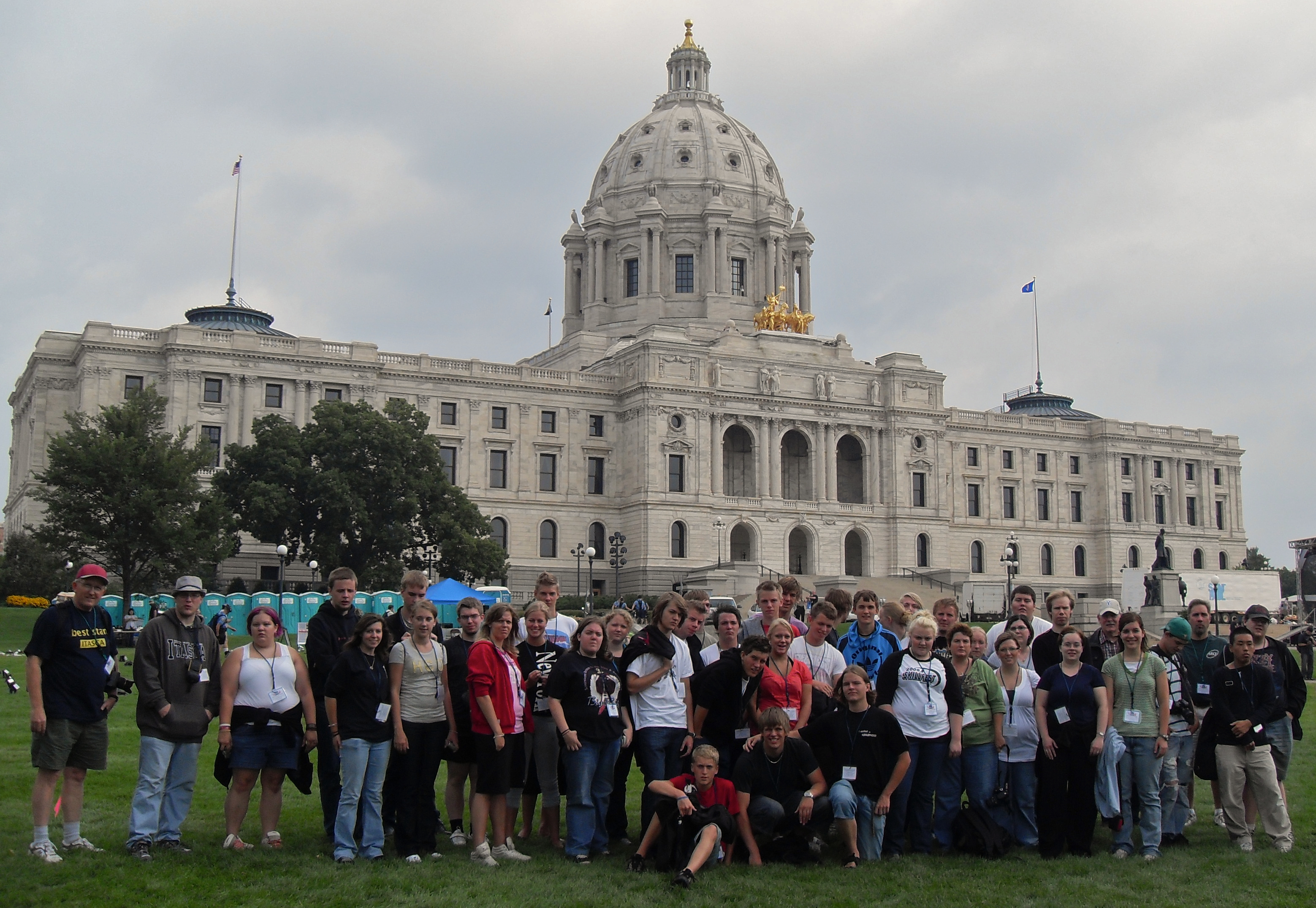 2008 visit to the Republican National Convention in St. Paul, Minnesota by Itasca Community College and Danish exchange students